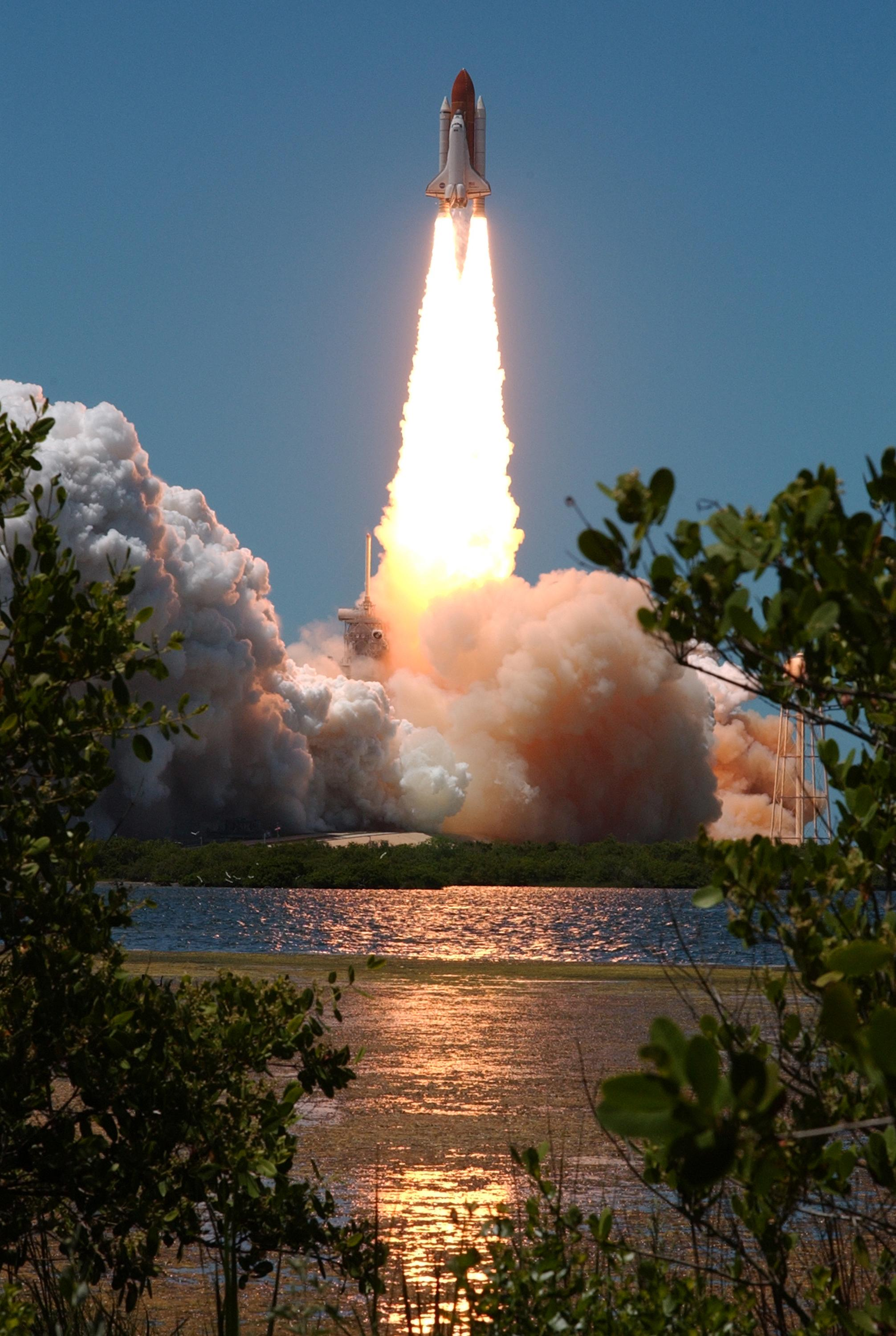 Launch of the STS-121 mission